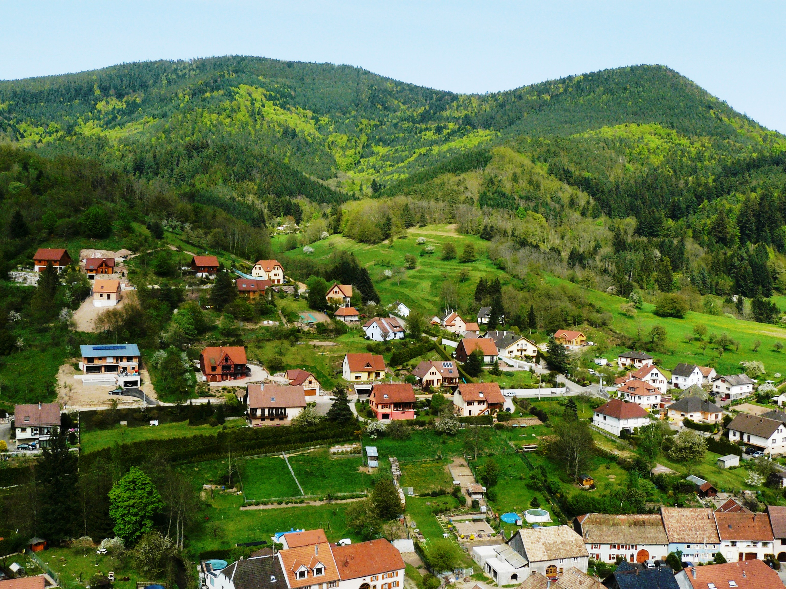 La Vaurière vue depuis la colline de Hargoutte